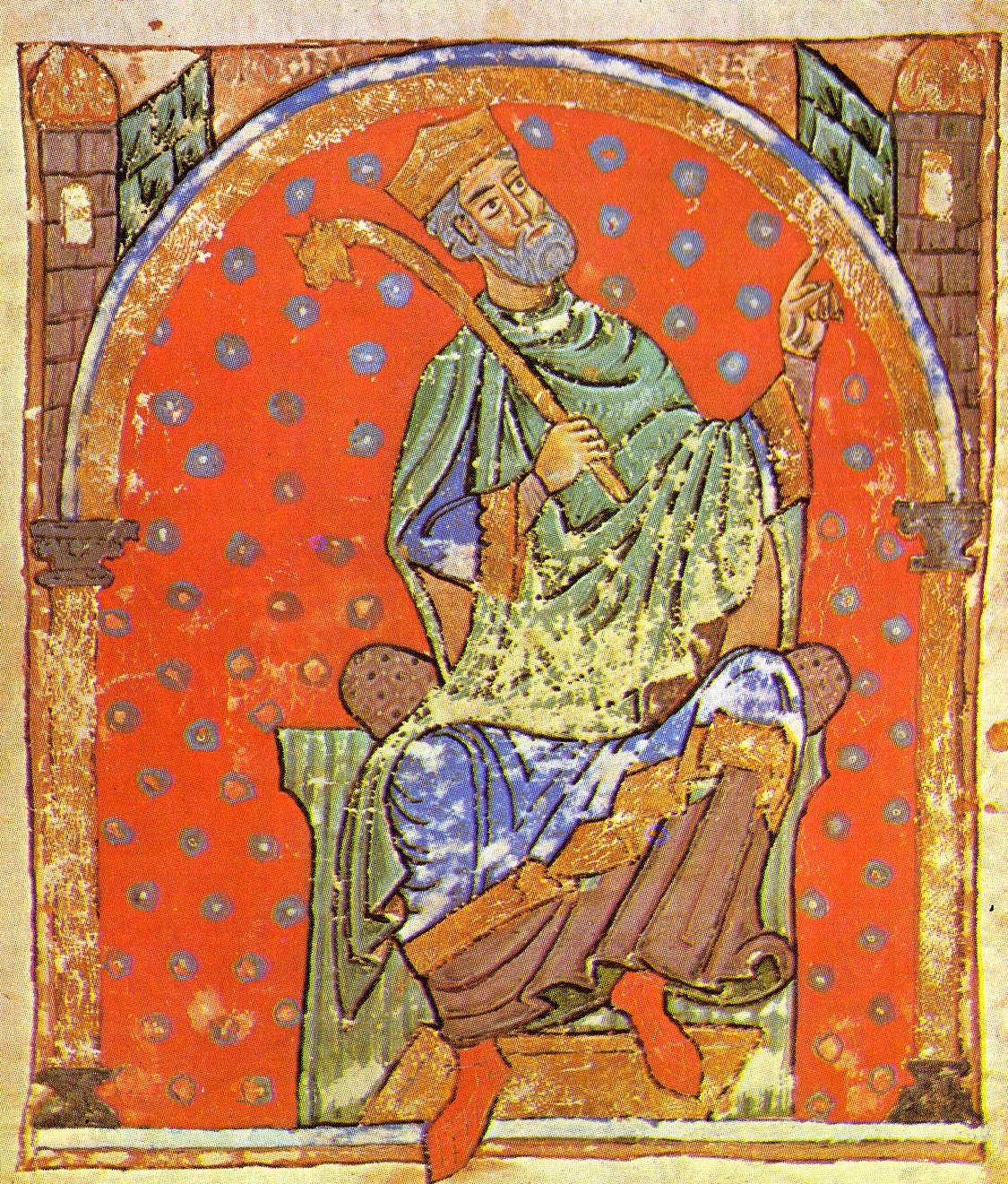 Ordoño IV of LeónGalego: Ordoño III, rei de Galiza (951-956).